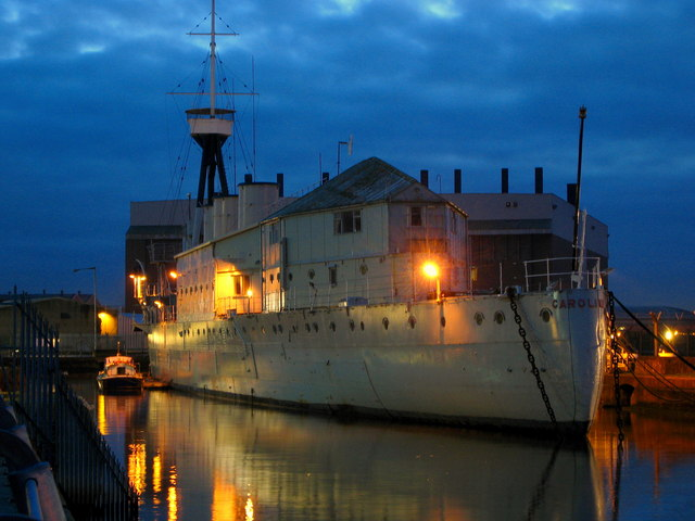 HMS 'Caroline', Alexandra Dock Belfast. Seen here in Belfast's Alexandra Dock, HMS Caroline is a C-class light cruiser of the Royal Navy. Caroline was launched and commissioned in 1914, making her the second-oldest ship currently in RN service, after HMS Victory. She acts as a static headquarters and training ship for the Royal Naval Reserve (RNR), based in Belfast. She is the last remaining British World War I light cruiser in service, and the last survivor of the Battle of Jutland (1916) still afloat. See a full article on her at wikipedia. She is normally open to the public on European Heritage Open Days in September. This is the view at dusk - previously photographs were hampered by a high fence, but this has been partially removed as work continues on the 'Titanic Quarter' regeneration scheme at Belfast docks. I shall return during daylight for some more - see 1107339.